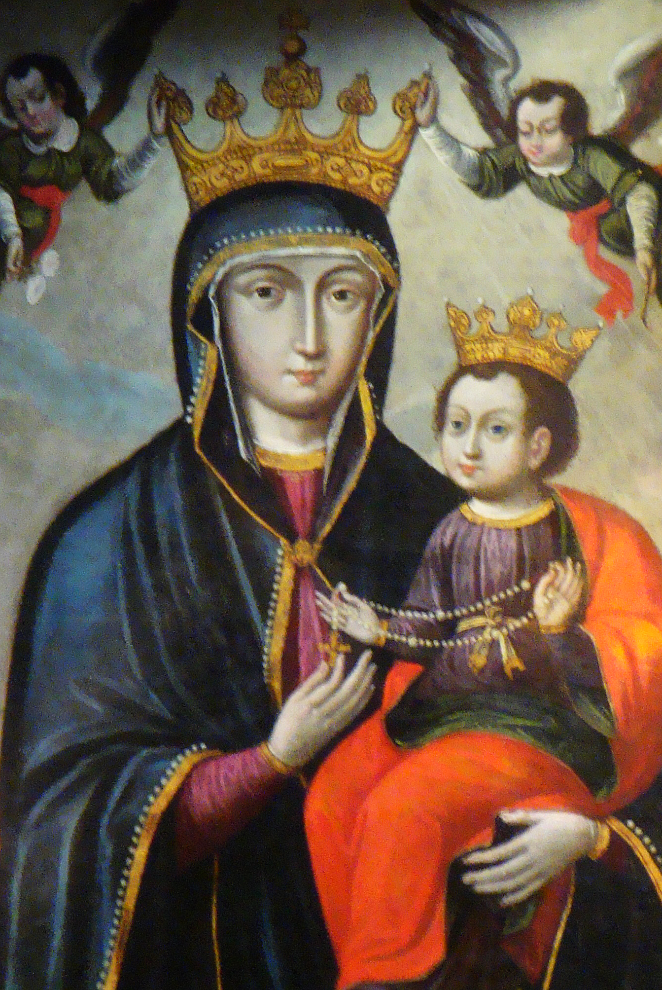 Our Lady of the Rosary from Sandomierz (Church of St. James in Sandomierz)